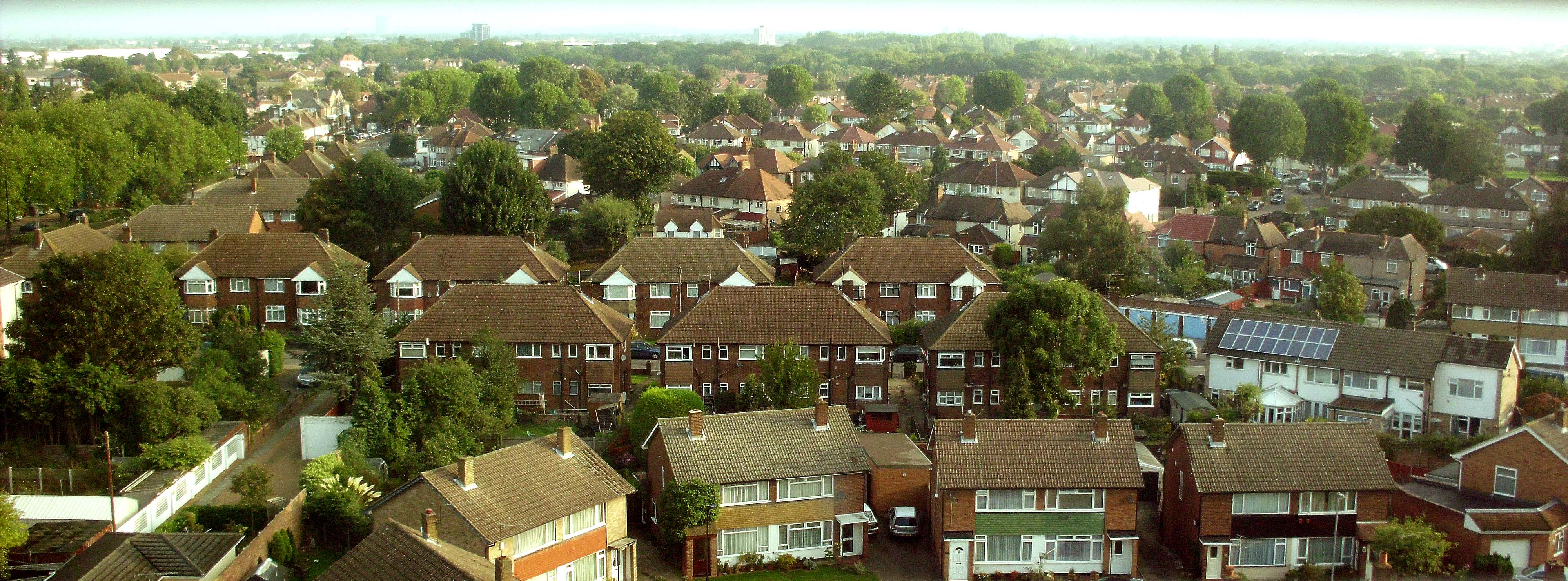 rooftop view of Feltham, London